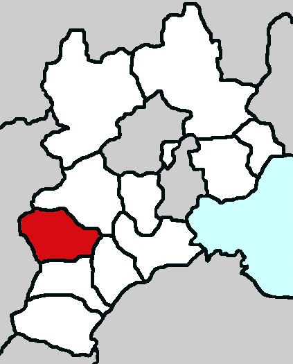 Shijiazhuang city, the capital of Hebei province, China. Made by myself